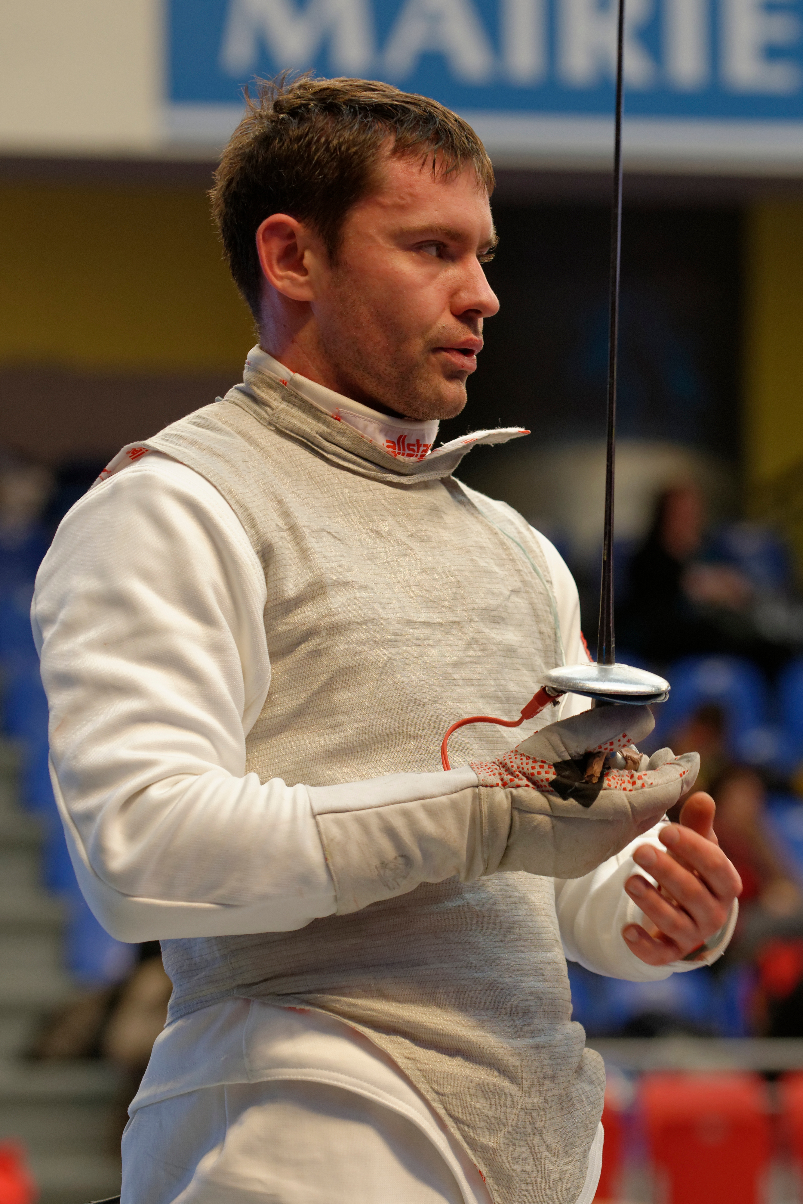 Poland's Leszek Rajski during his T32 bout against Peter Joppich of Germany at the Challenge International de Paris (men's foil World Cup).